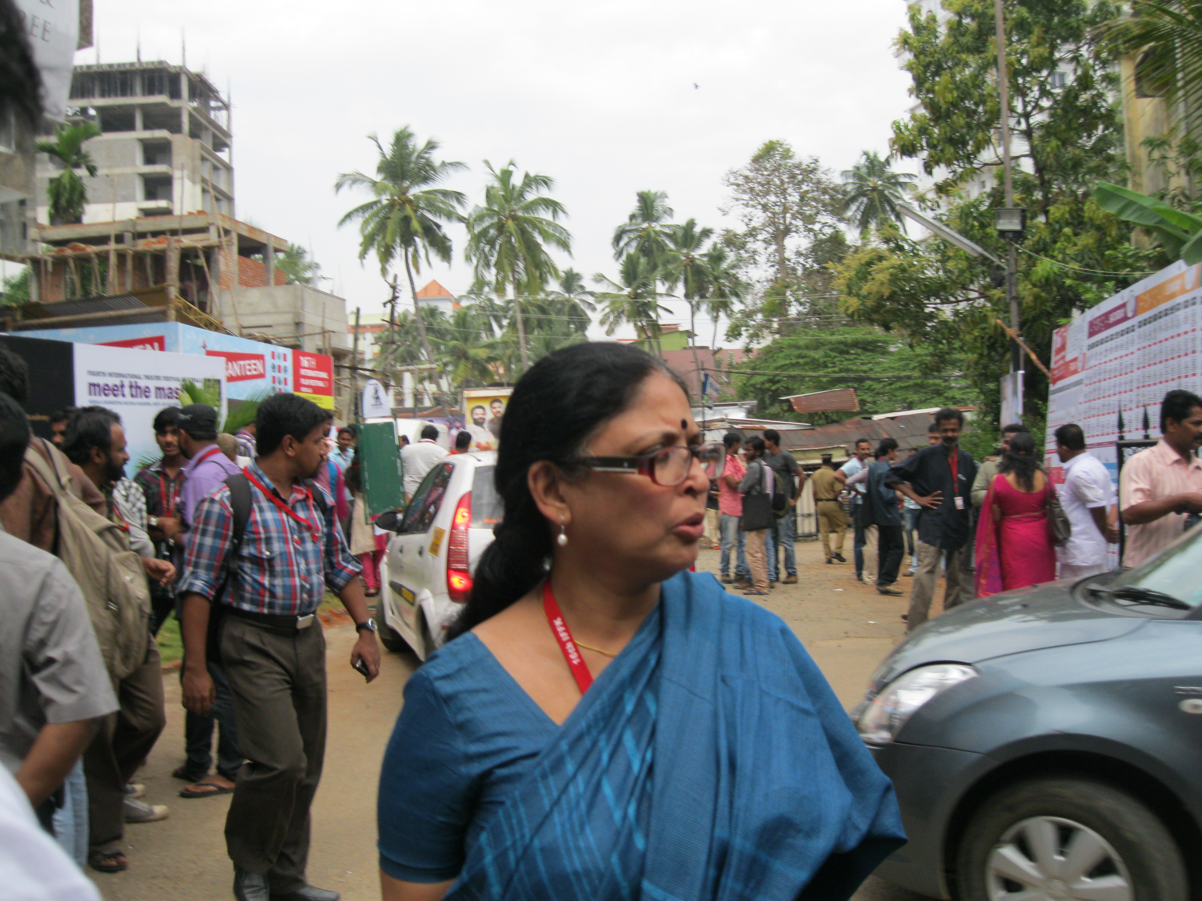 iffk festival director,editor malayalam film